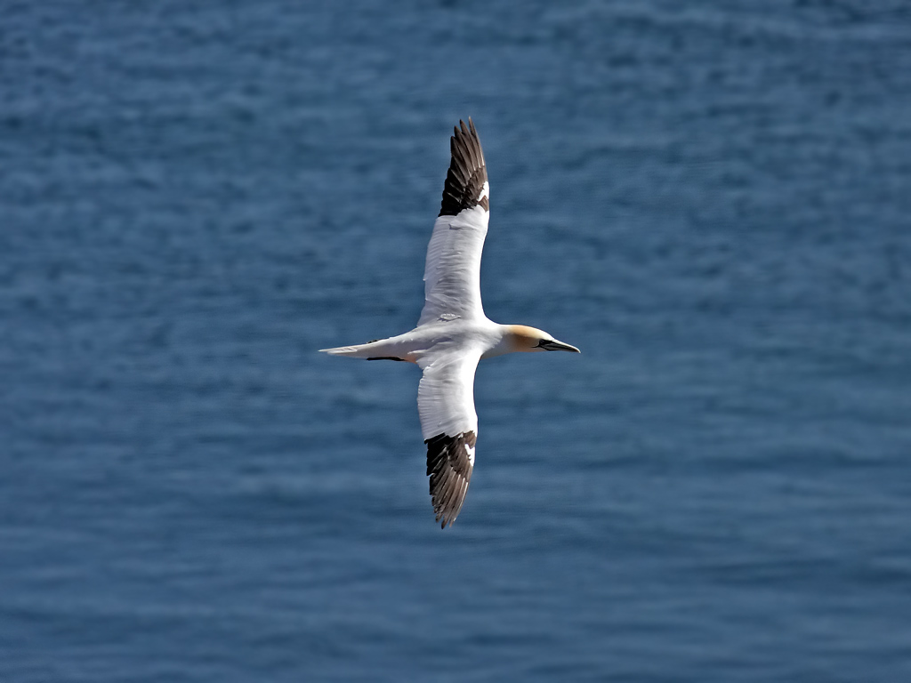 Northern Gannet